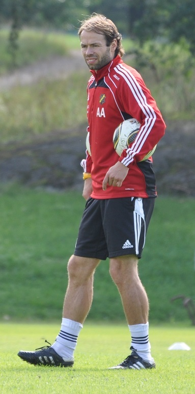 Andreas Alm